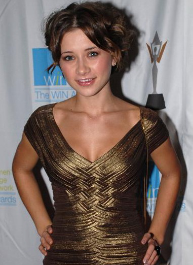 Olesya Rulin at the Women’s Image Network Awards